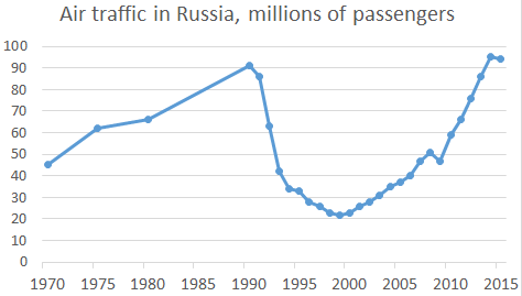 Air traffic in Russia, 1970-2015 (in millions of passengers per year) Data source: GKS, [1].